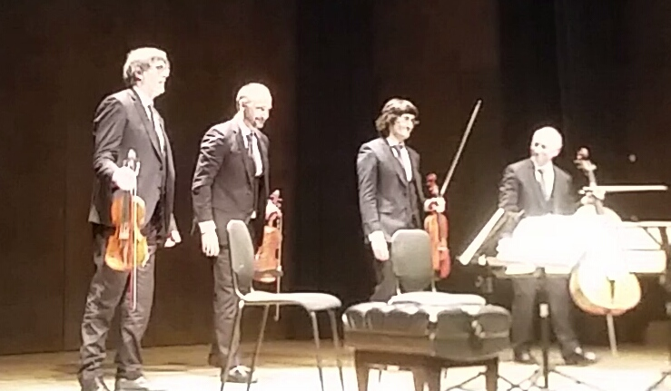 Quatuor Danel photographed in Montréal , Québec, Canada inside the MBAM Bourgie Hall .